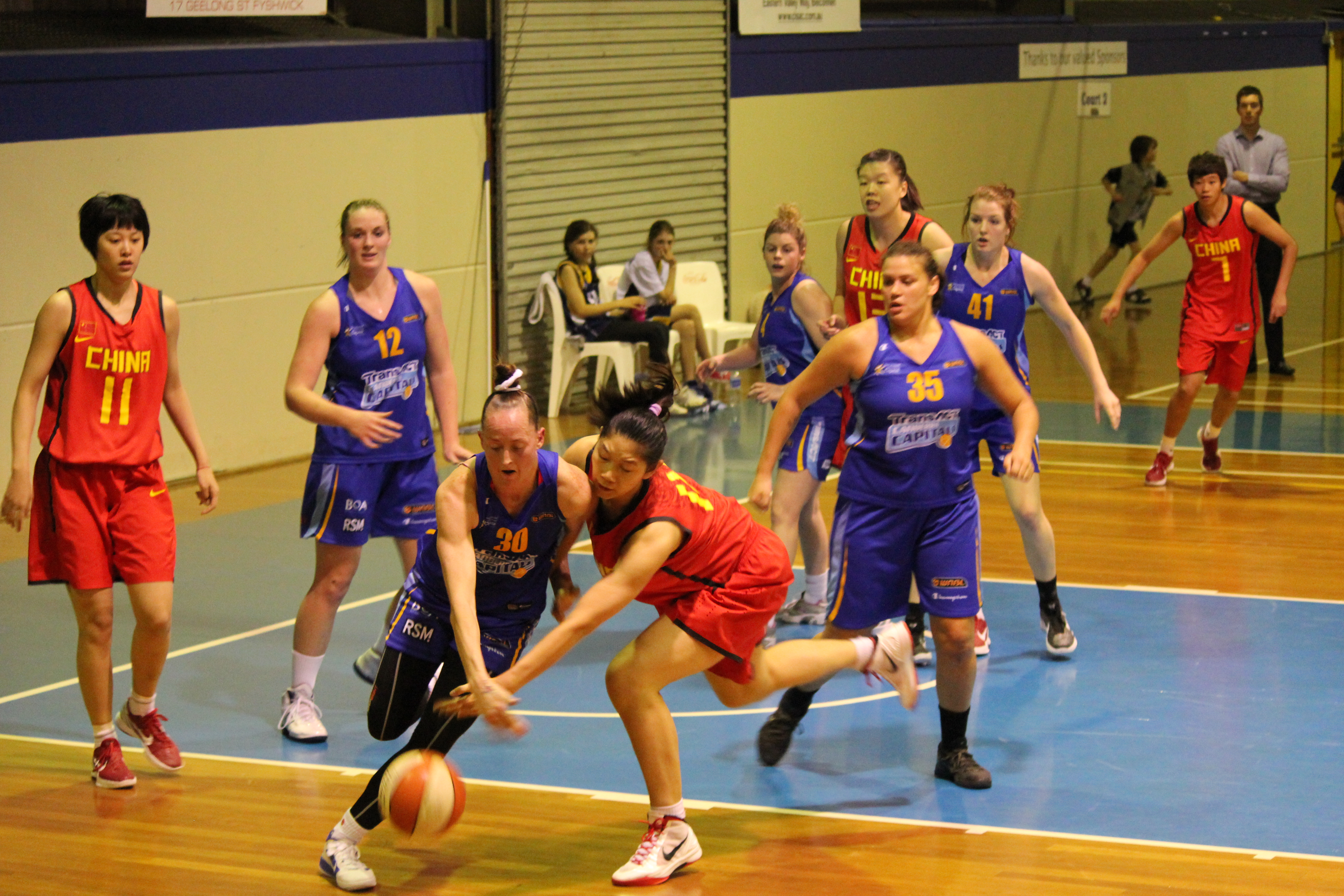 Michelle Cosier in a game for the Capitals against the Chinese women's national b basketball team.